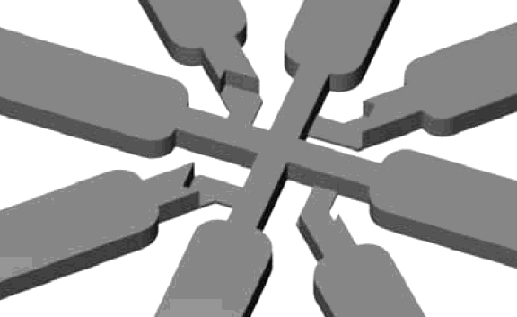 Active region of the thin-film splitted Hall structure of a 3D magnetic sensor